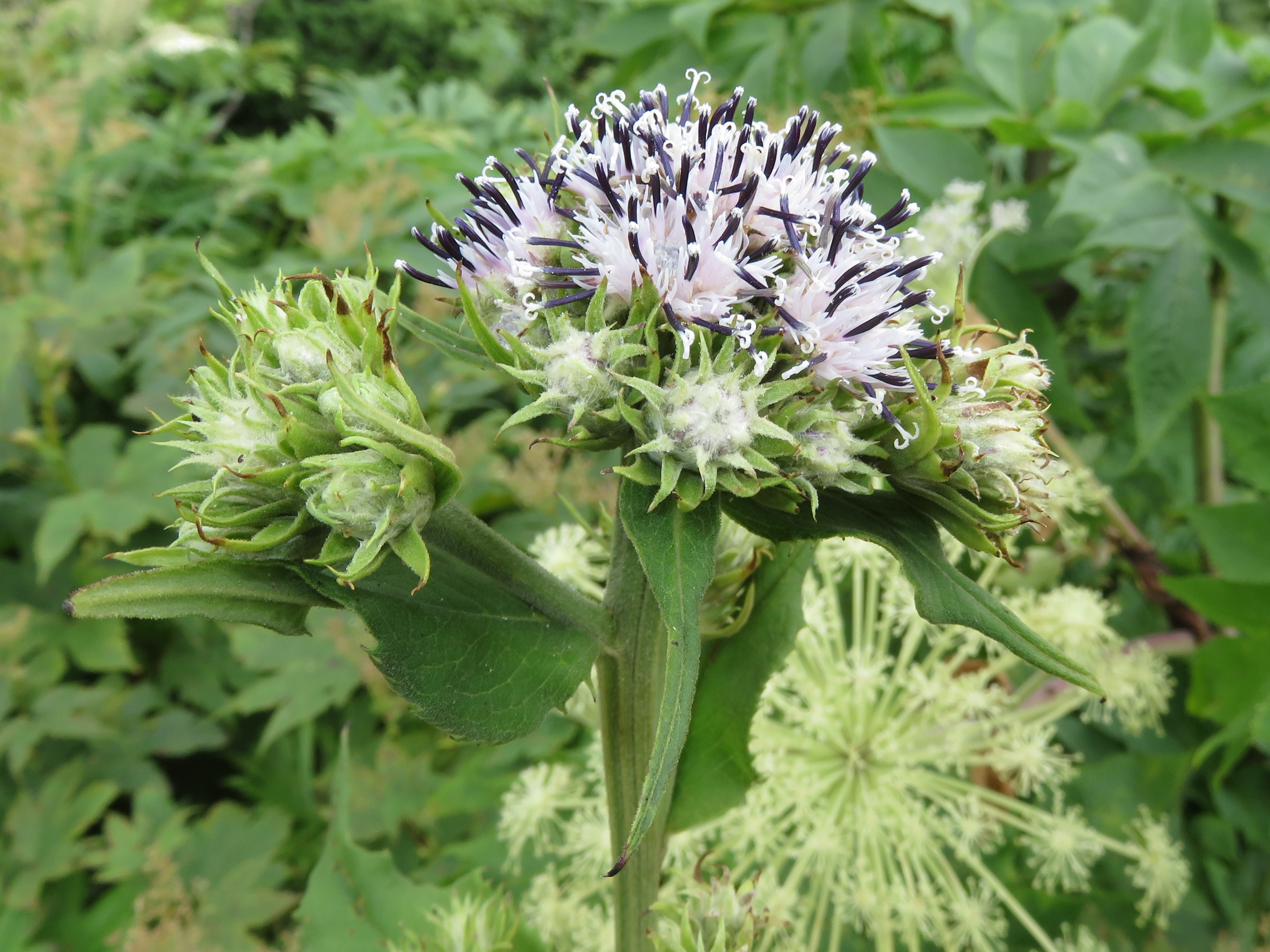 Saussurea ugoensis, Mount Akita-koma, Akita pref., Japan